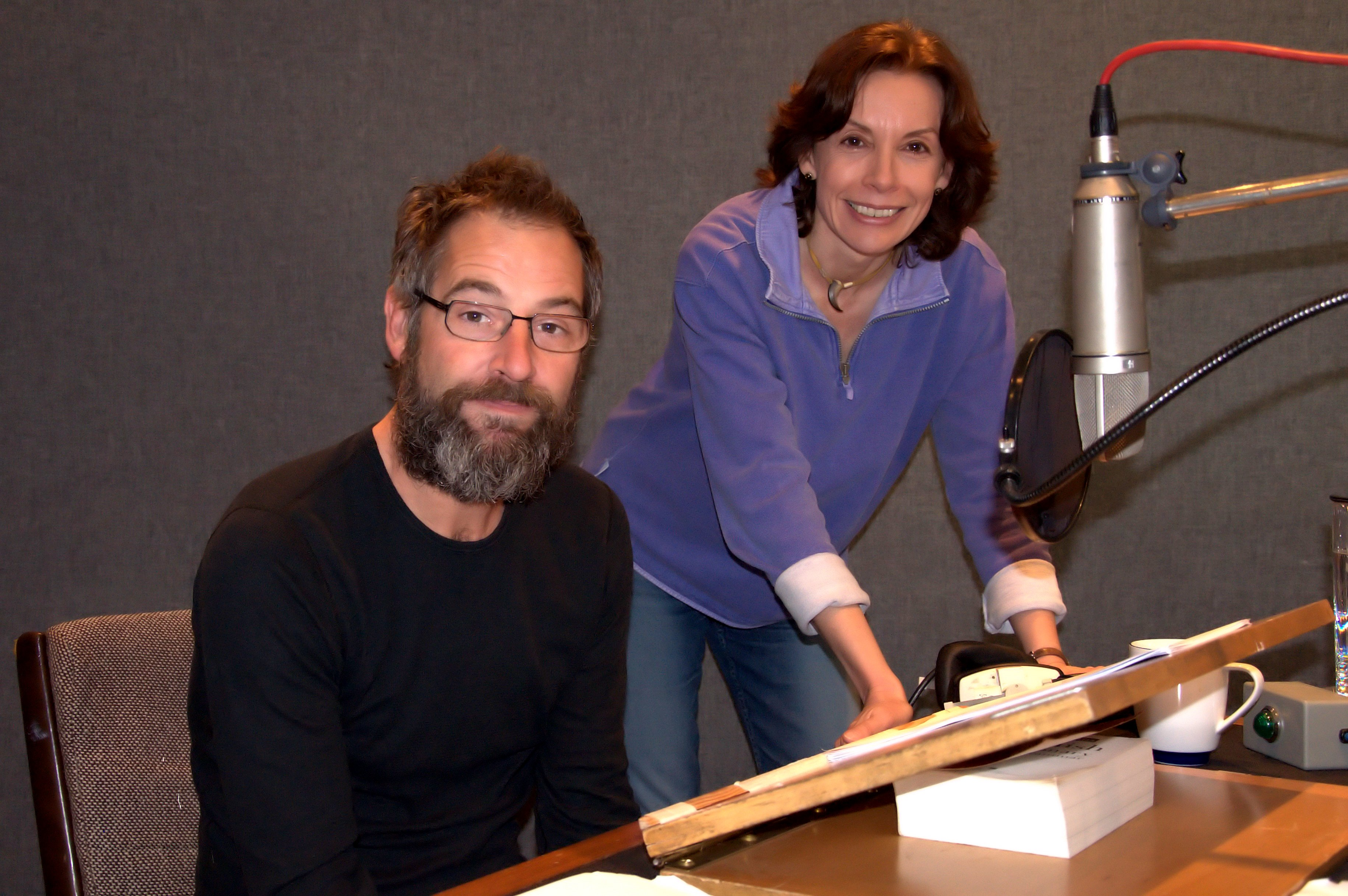 Jeremy Northam with author Michelle Paver recording Paver’s audio book “Dark Matter”